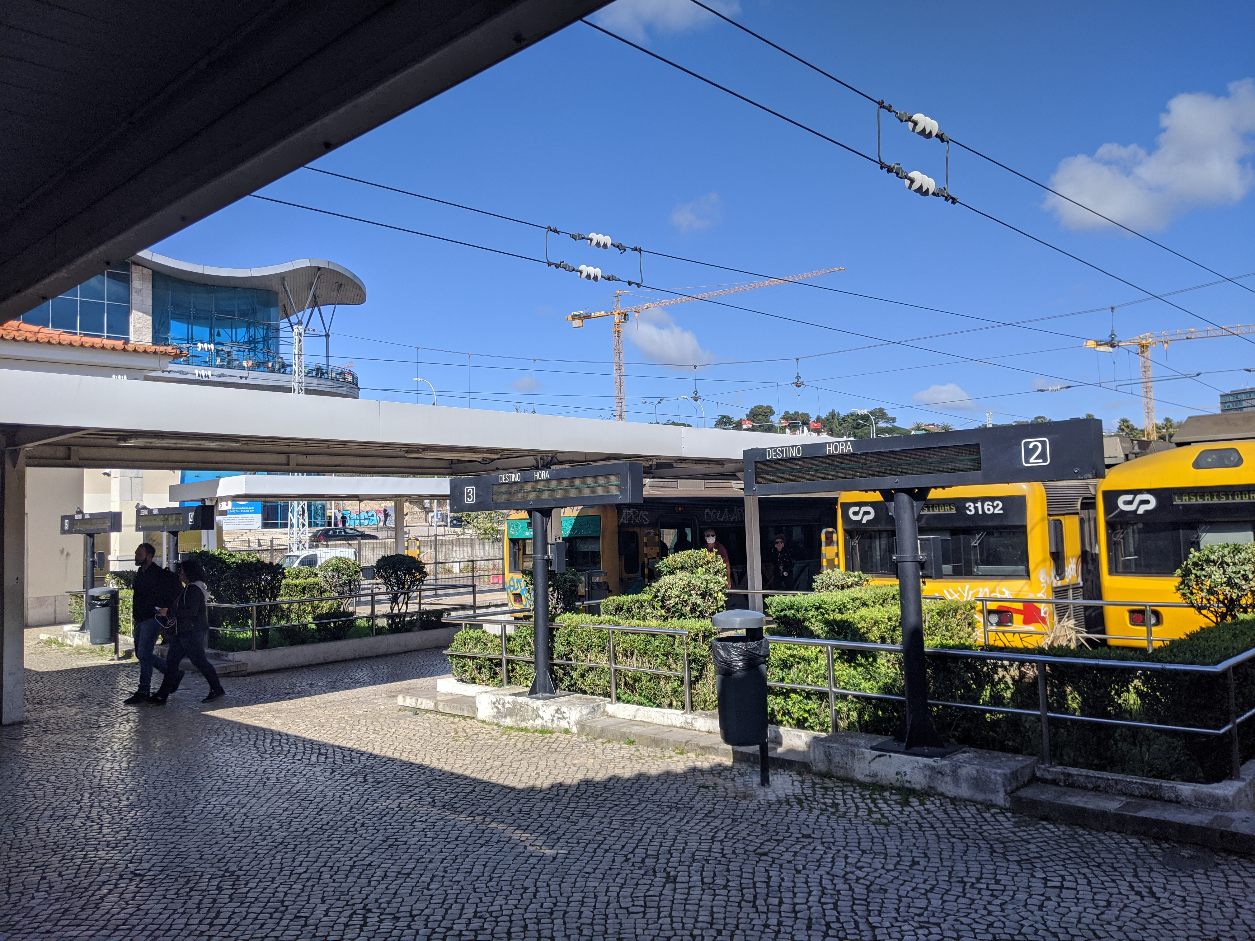 Cascais train station